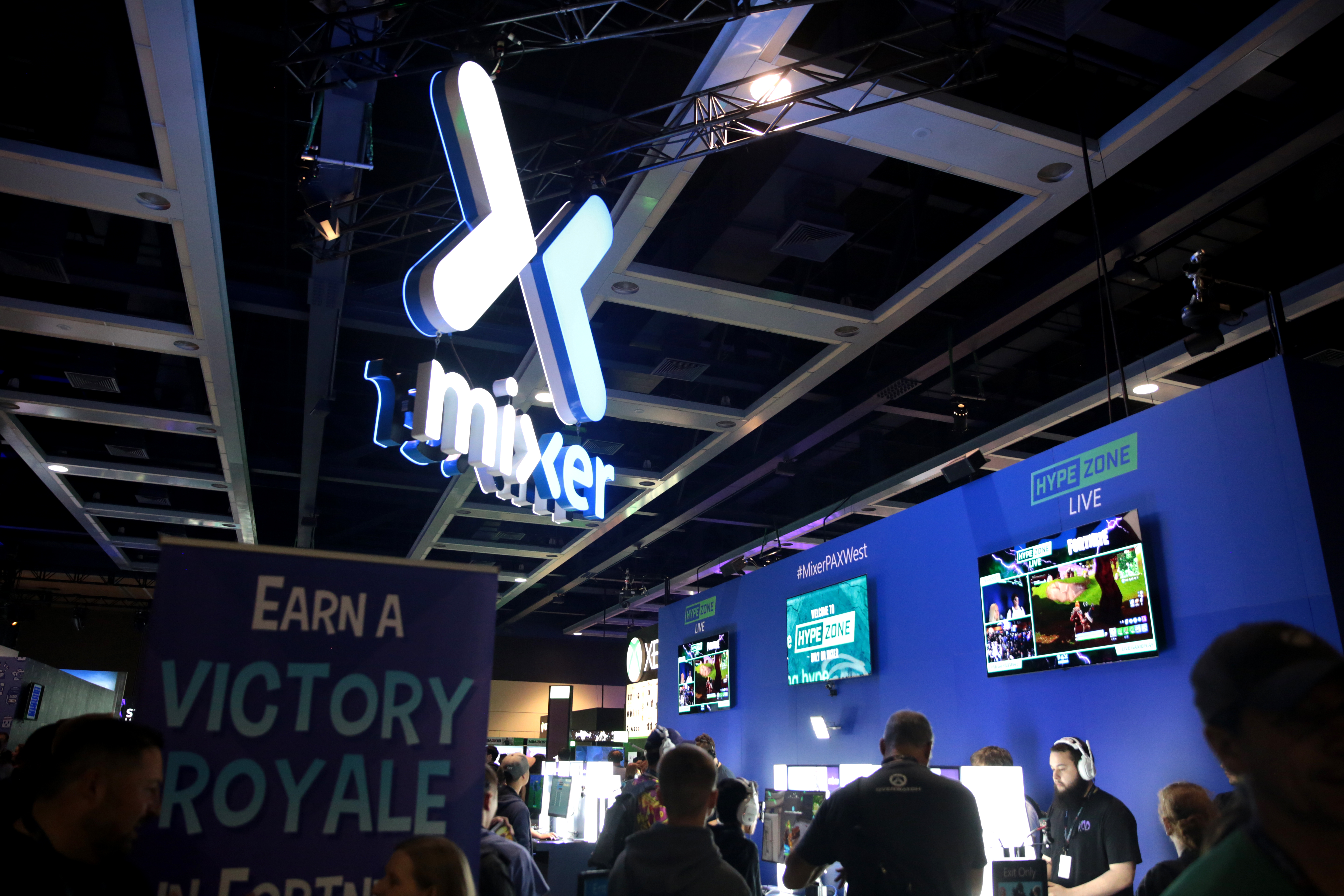 Mixer booth at the 2018 PAX West at the Washington State Convention Center in Seattle, Washington.